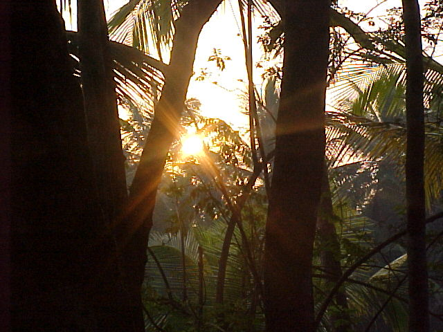 The beauty of Surrise, view from a tiny village of North Malabar